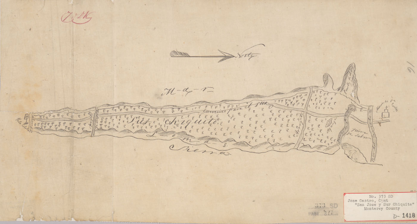 Hand-drawn map of the Rancho San José y Sur Chiquito in present-day Big Sur, California. The map was used to support Jose Castro's claim for the rancho during court proceedings after Mexico ceded California to the United States.